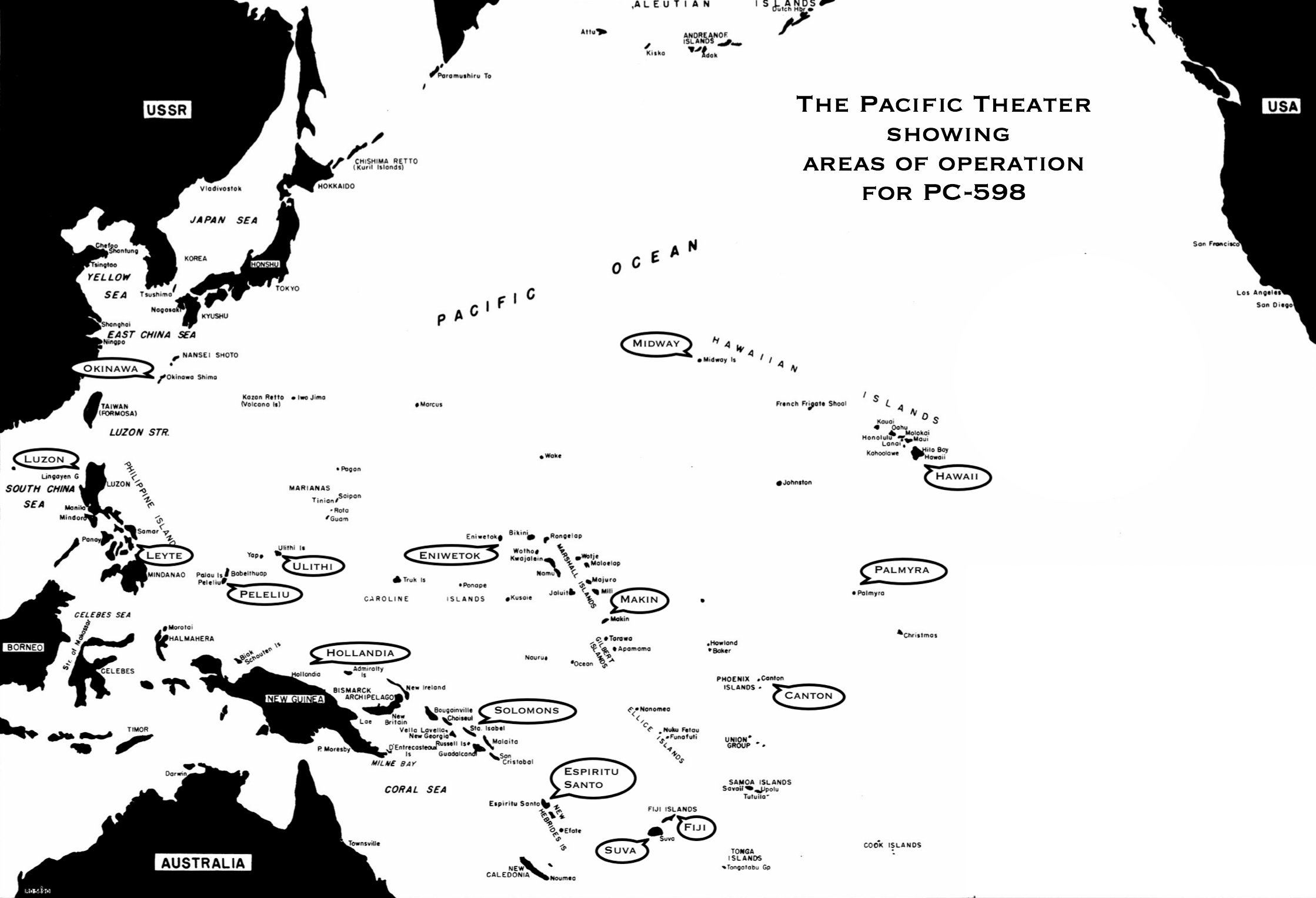 A detailed map of the Pacific ocean showing locations visited by USS PC-958 between May, 1943 and August, 1945